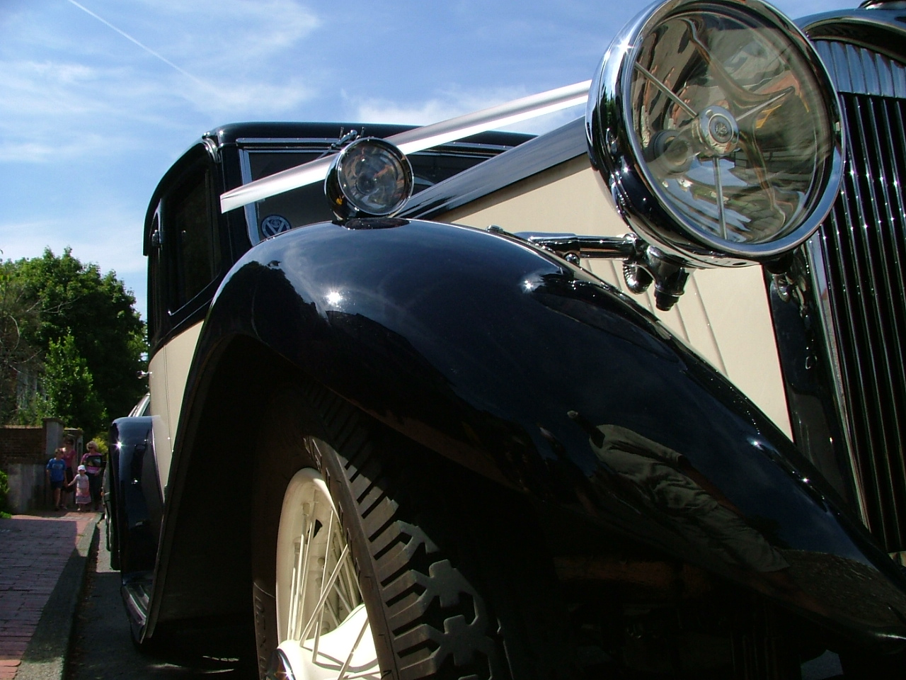 An image of an old car (I am unsure of the make, although I presume it is a "Singer" because this was written on the front) taken by myself in Ditchling (Sussex, UK) on the 19th of July 2005. It was being used as a wedding car at the time, hence the ribbons.